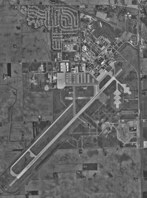 USGS digital orthophoto of Grissom Air Force Base in Indiana